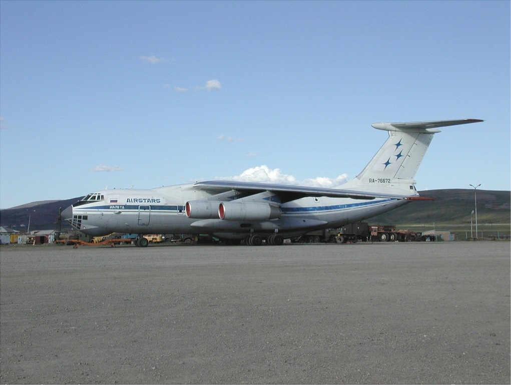 An Ilyushin Il-76 of Airstars